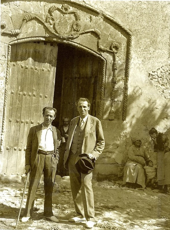 Emiliano Barral and Kurt Schindler in Medinaceli (Soria, España) at 1932.